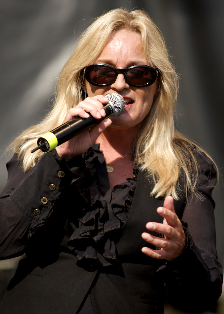 Danish singer Anne Linnet.